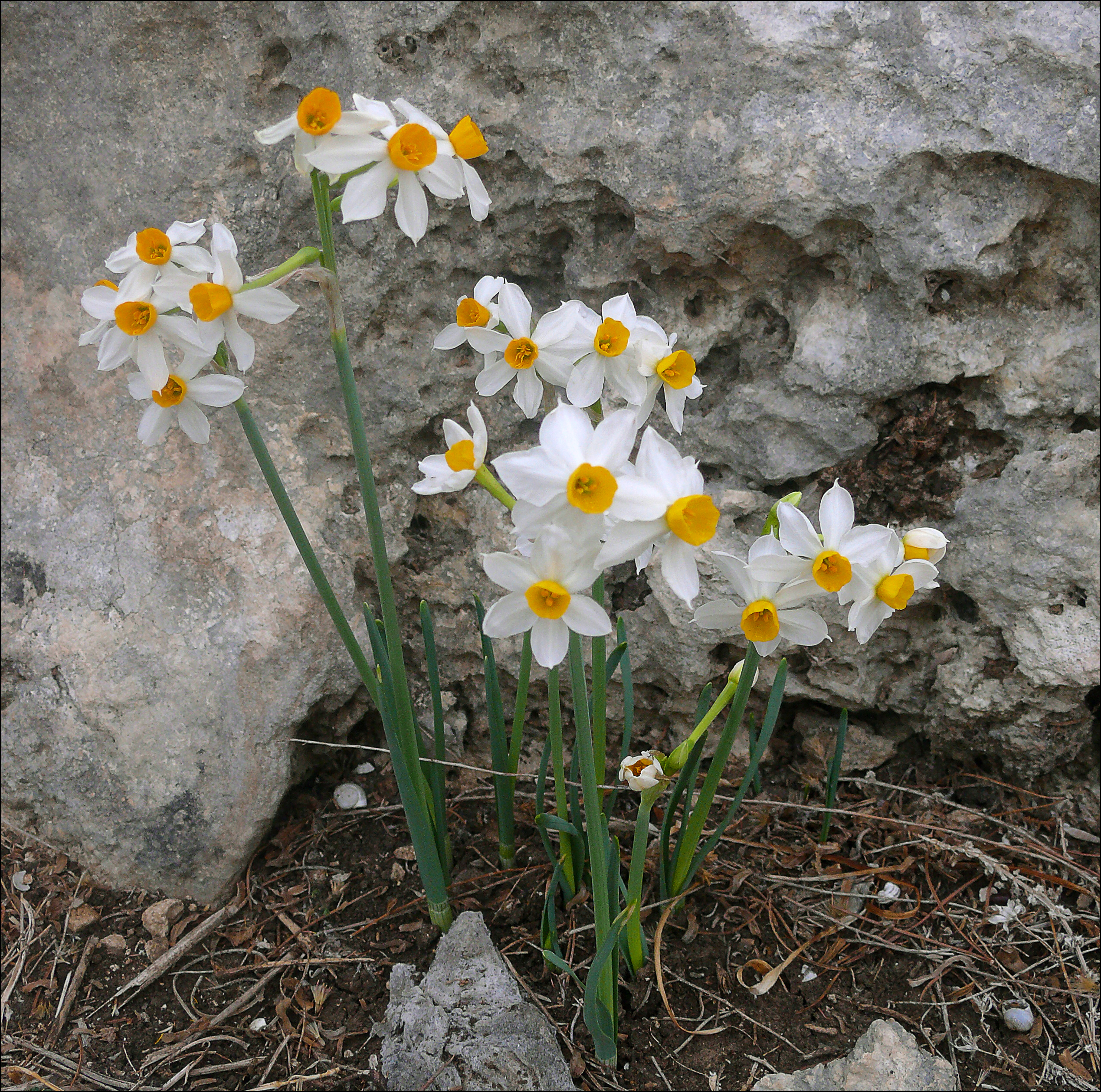 Narcissus tazetta, Shoam (Shoham) Forest Park, Israel